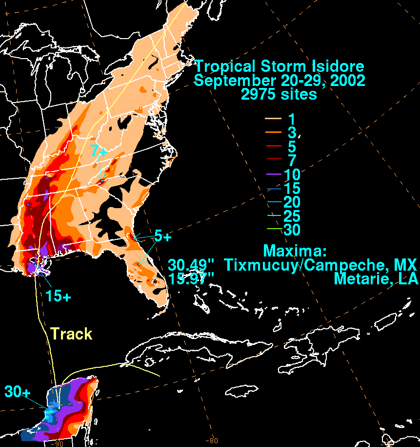 Rainfall produced by Hurricane Isidore during September 2002.